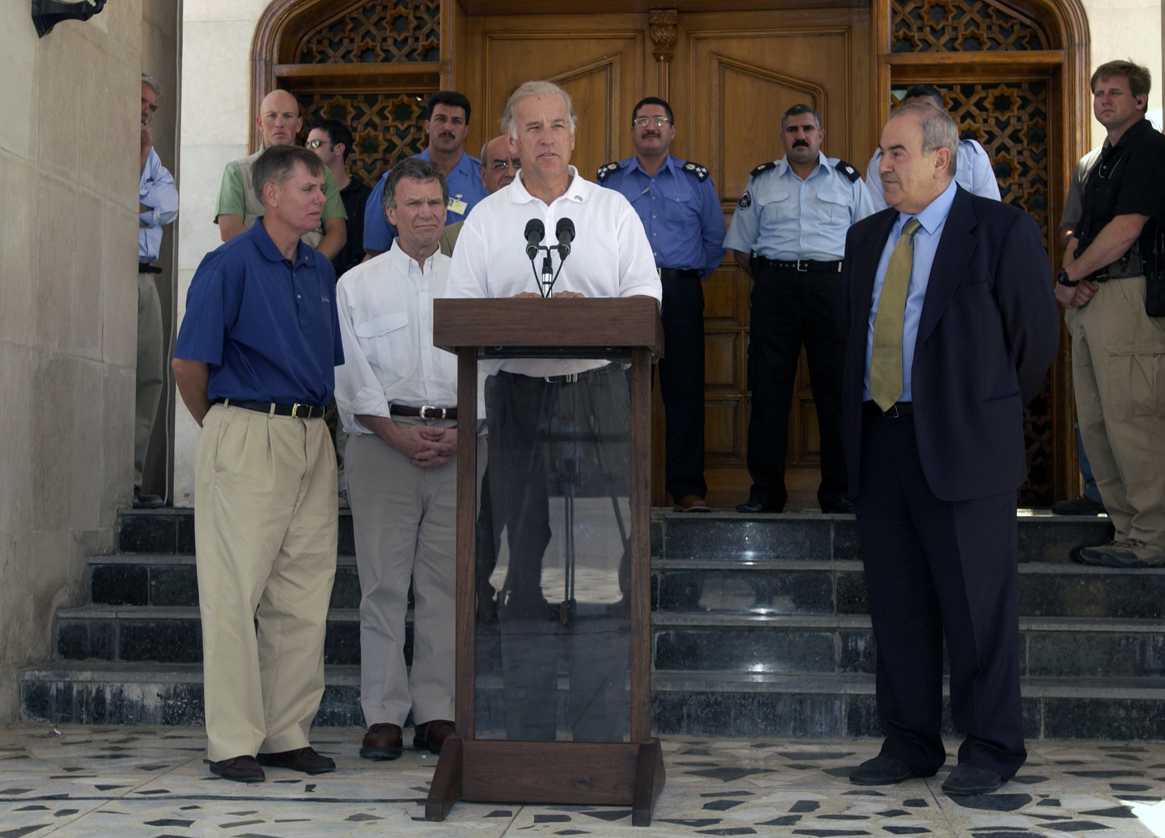 US Senator Joseph Biden, D-DE, addresses the press after having a brief meeting with Iraq's interim Prime Minister lyad Allawi (right) and fellow US Senators Lindsey Graham (left), R- SC; and Tom Daschle, D-SD, inside the green zone of Baghdad, Iraq (IRQ), during Operation IRAQI FREEDOM. "I think that the ultimate security and success in Iraq is still clearly within the grasp of the prime minister, his cabinet," said Senator Biden, 6/19/2004